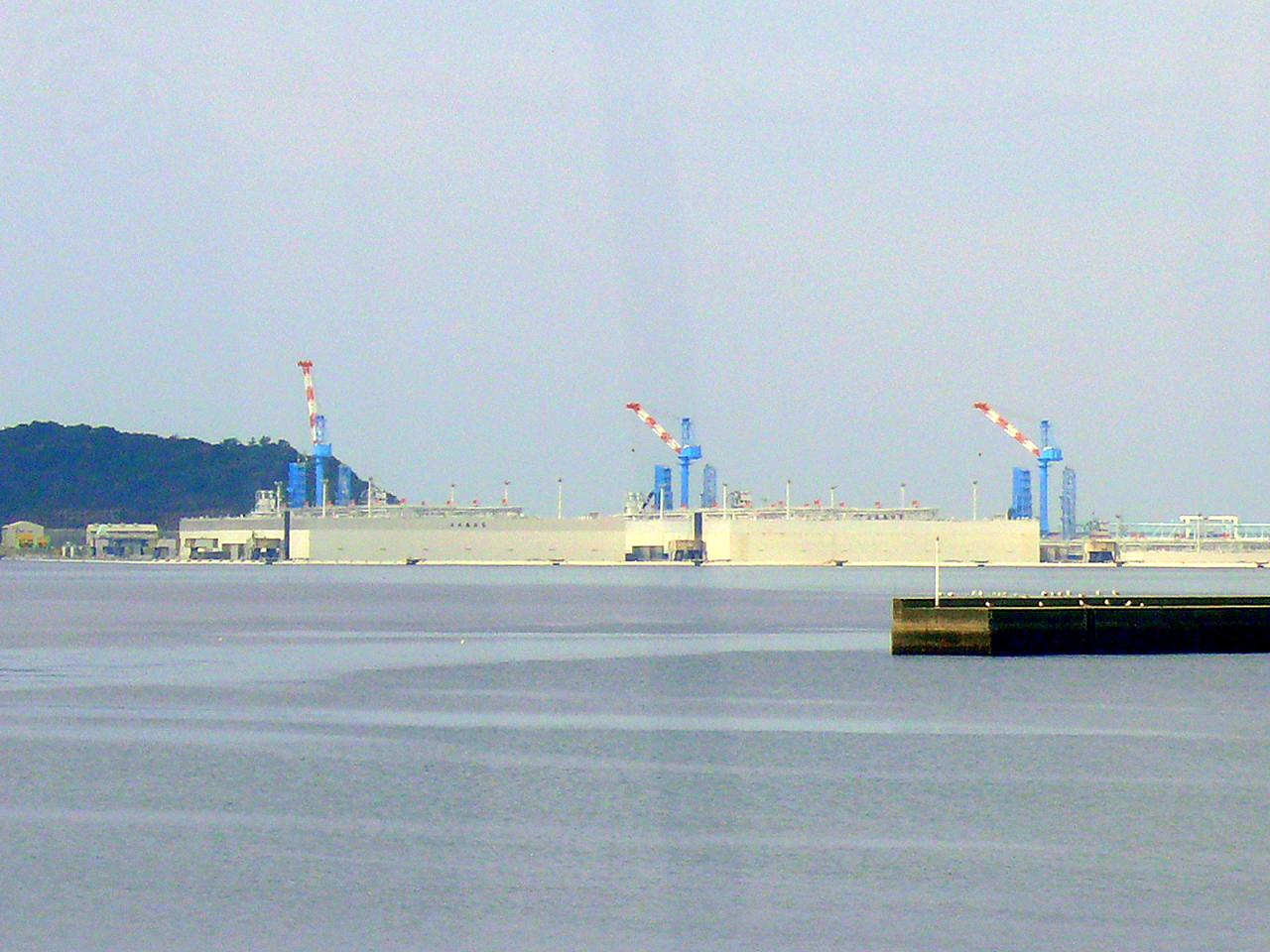 Kamigoto Oil Storage Company Oil Tank(Japan,Shinkamigoto, Nagasaki).